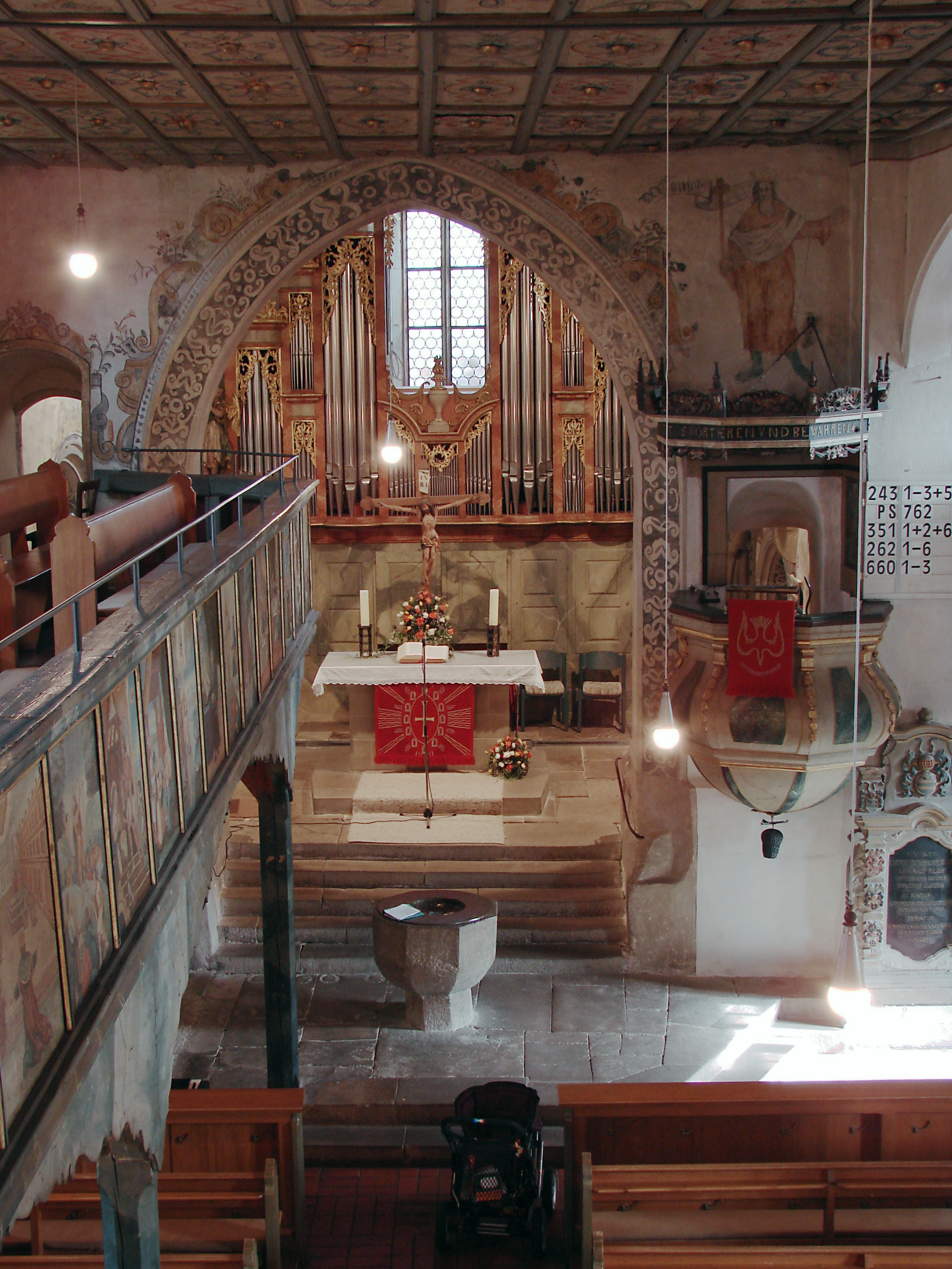 Freiberg am Neckar, Germany, Interior of Amandus Church